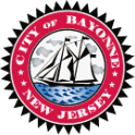 The official city seal of Bayonne, New Jersey, dating back from the 1910s.